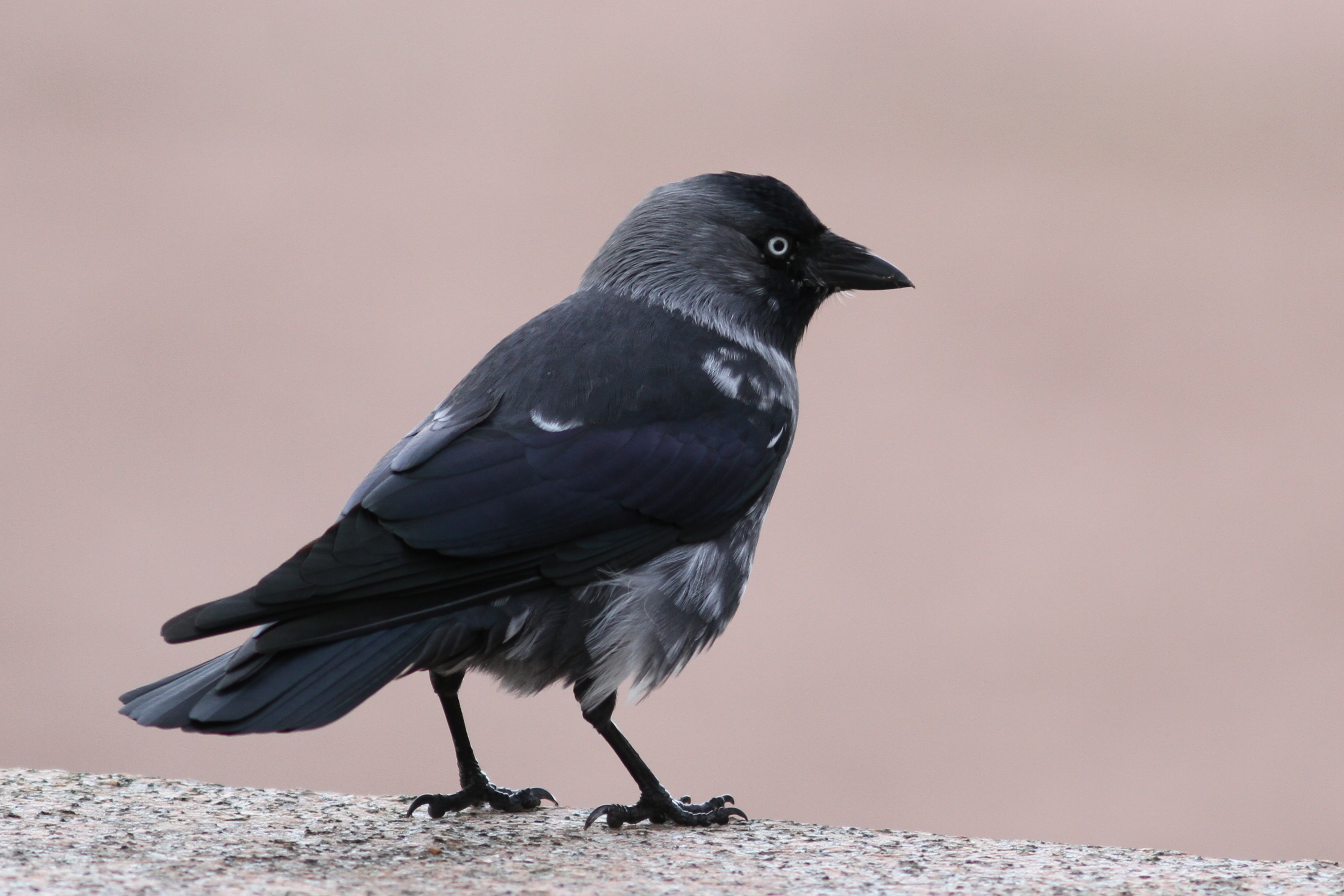 Leucistic Jackdaw (Corvus monedula) with strange white feathers in Naantali cemetery, Naantali, Finland.